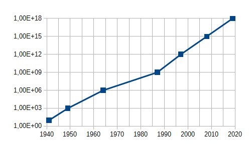 Computer performance progress in FLOPS